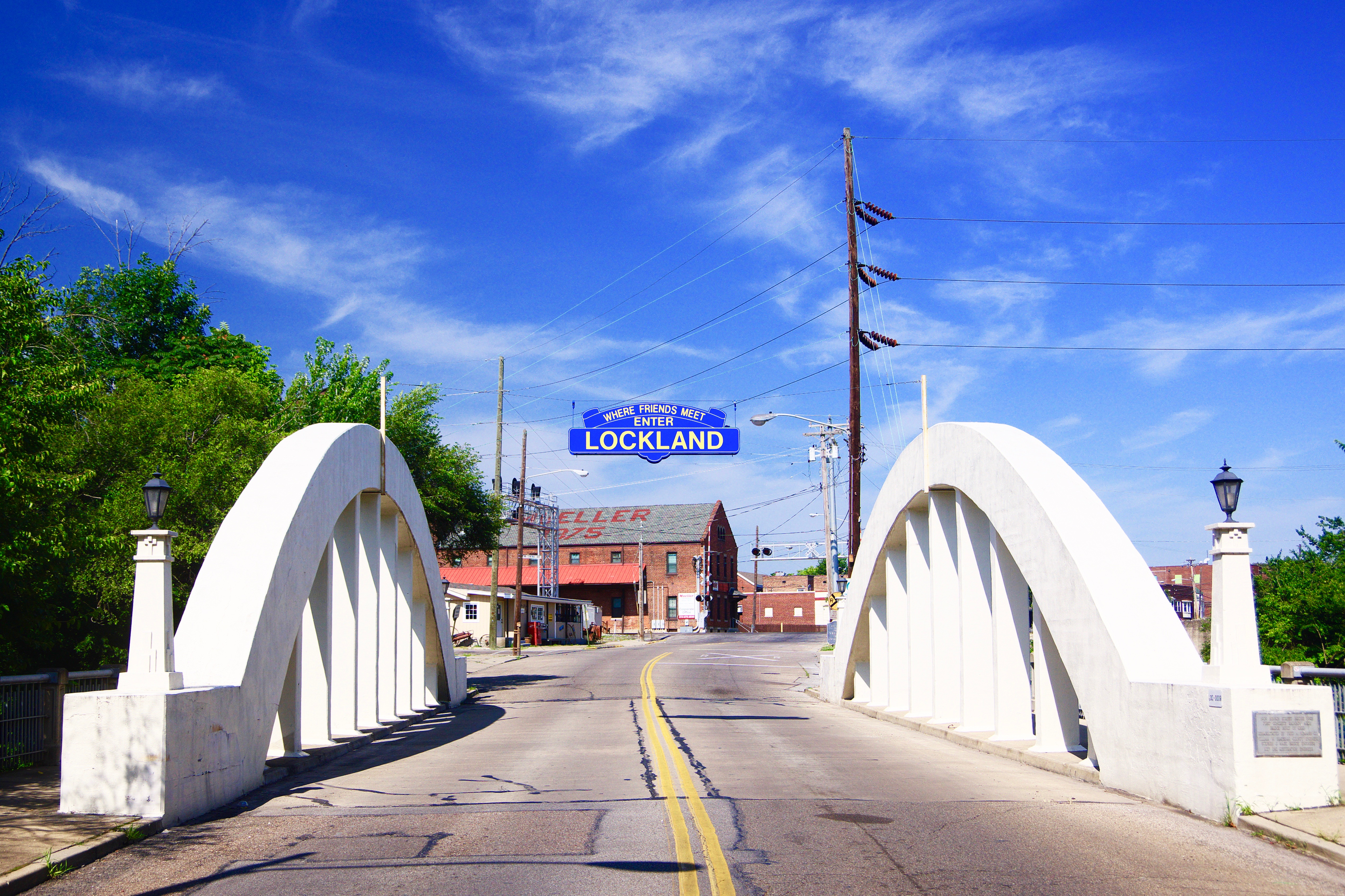 Entrance to Lockland, Ohio, United States, along the Benson Street Bowstring Bridge (at its border with Reading).